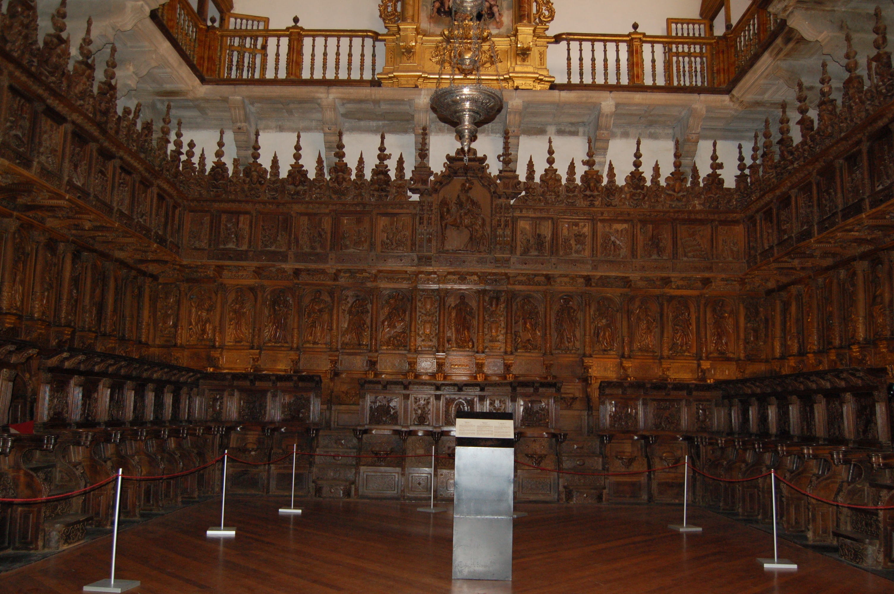 Matero de Prado: coro do mosteiro de San Martiño Pinario en Santiago de Compostela